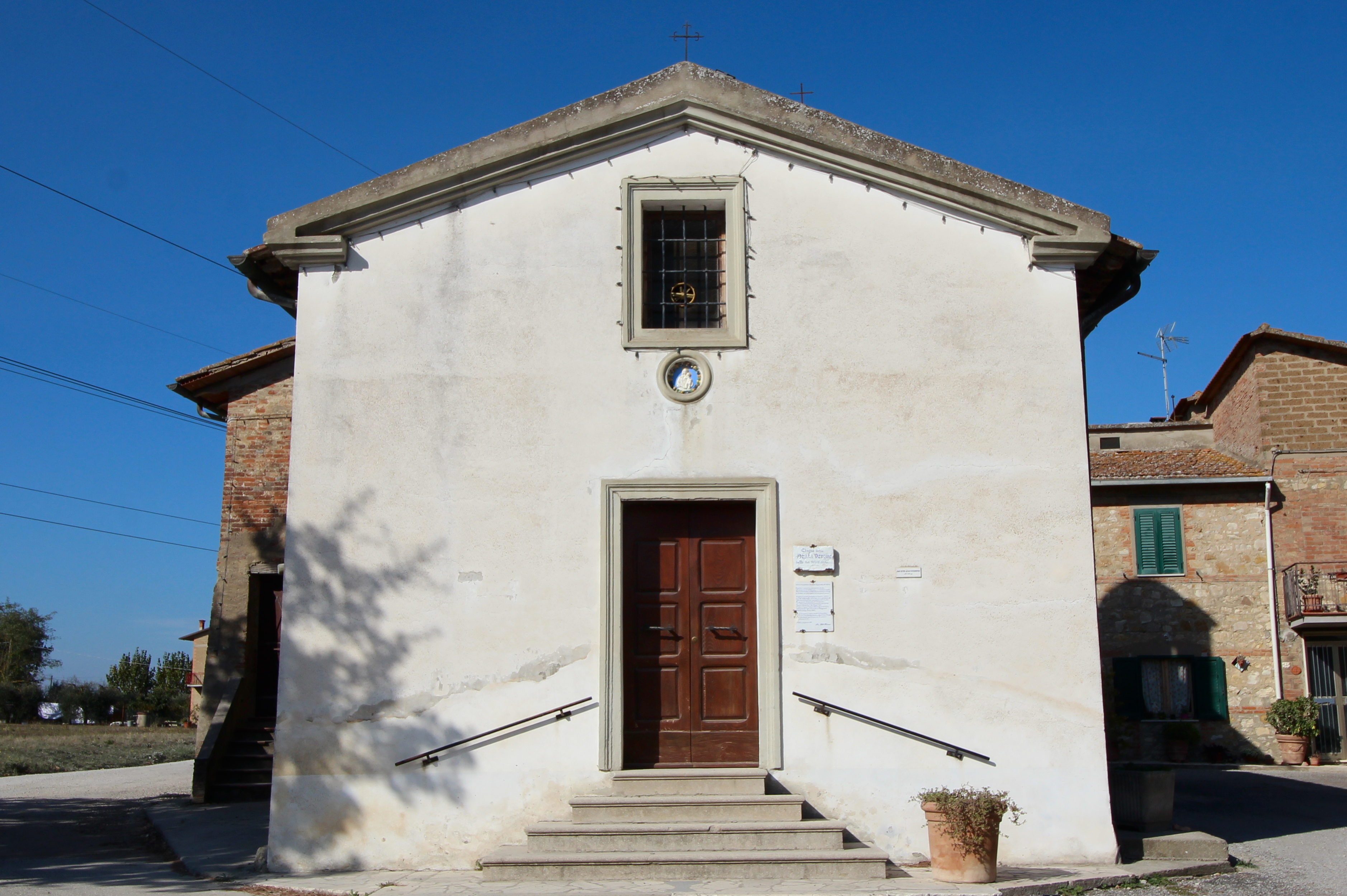 Vitellino, hamlet of Castiglione del Lago, Province of Perugia, Umbria, Italy